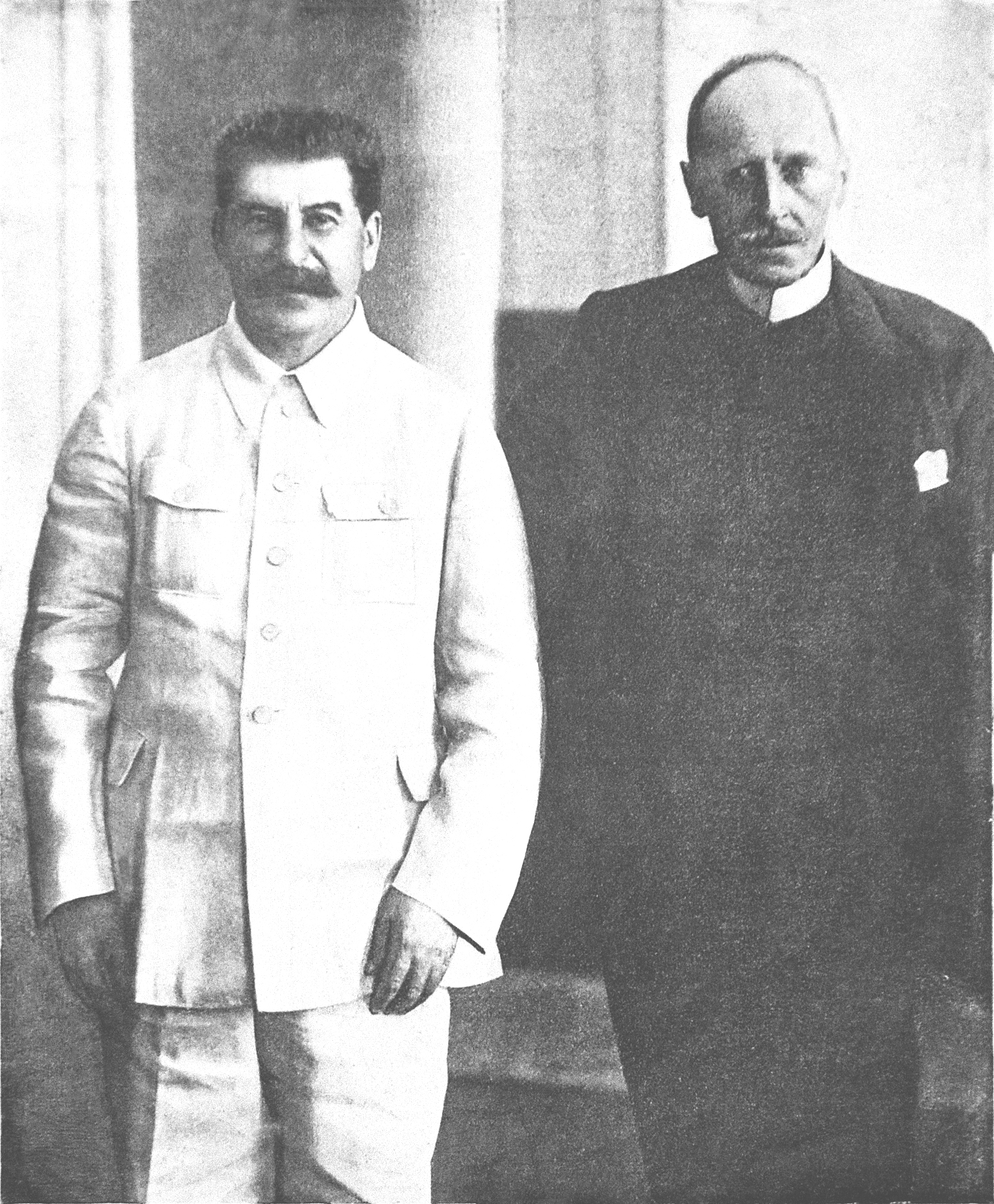 Photo date: Jun 28 1935. Joseph Stalin, General Secretary of the Communist Party and French author and Nobel laureate Romain Rolland. Romain Rolland will write to Stalin in 1937 seeking clemency for Nikolai Bukharin, arguing that "an intellect like that of Bukharin is a treasure for his country." He compared Bukharin's situation to that of the great chemist Antoine Lavoisier who was guillotined during the French Revolution: "We in France, the most ardent revolutionaries... still profoundly grieve and regret what we did. ... I beg you to show clemency.